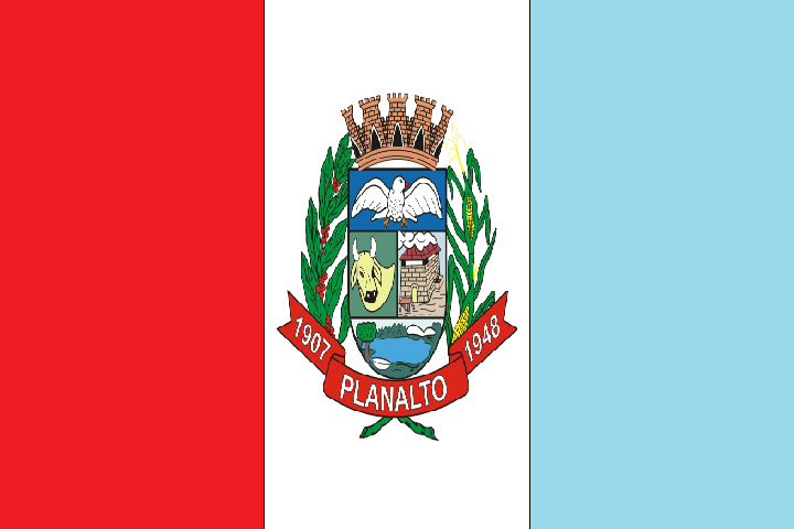 Flag of Planalto, state of São Paulo, Brazil. This work is in the public domain in Brazil for one of the following reasons: It is a work published or commissioned by a Brazilian government (federal, state, or municipal) prior to 1983.(Law 3071/1916, art. 662; Law 5988/1973, art. 46; Law 9610/1998, art. 115) It is the text of a treaty, convention, law, decree, regulation, judicial decision, or other official enactment.(Law 9610/1998, art. 8) This image shows a flag, a coat of arms, a seal or some other official insignia. The use of such symbols is restricted in many countries. These restrictions are independent of the copyright status.